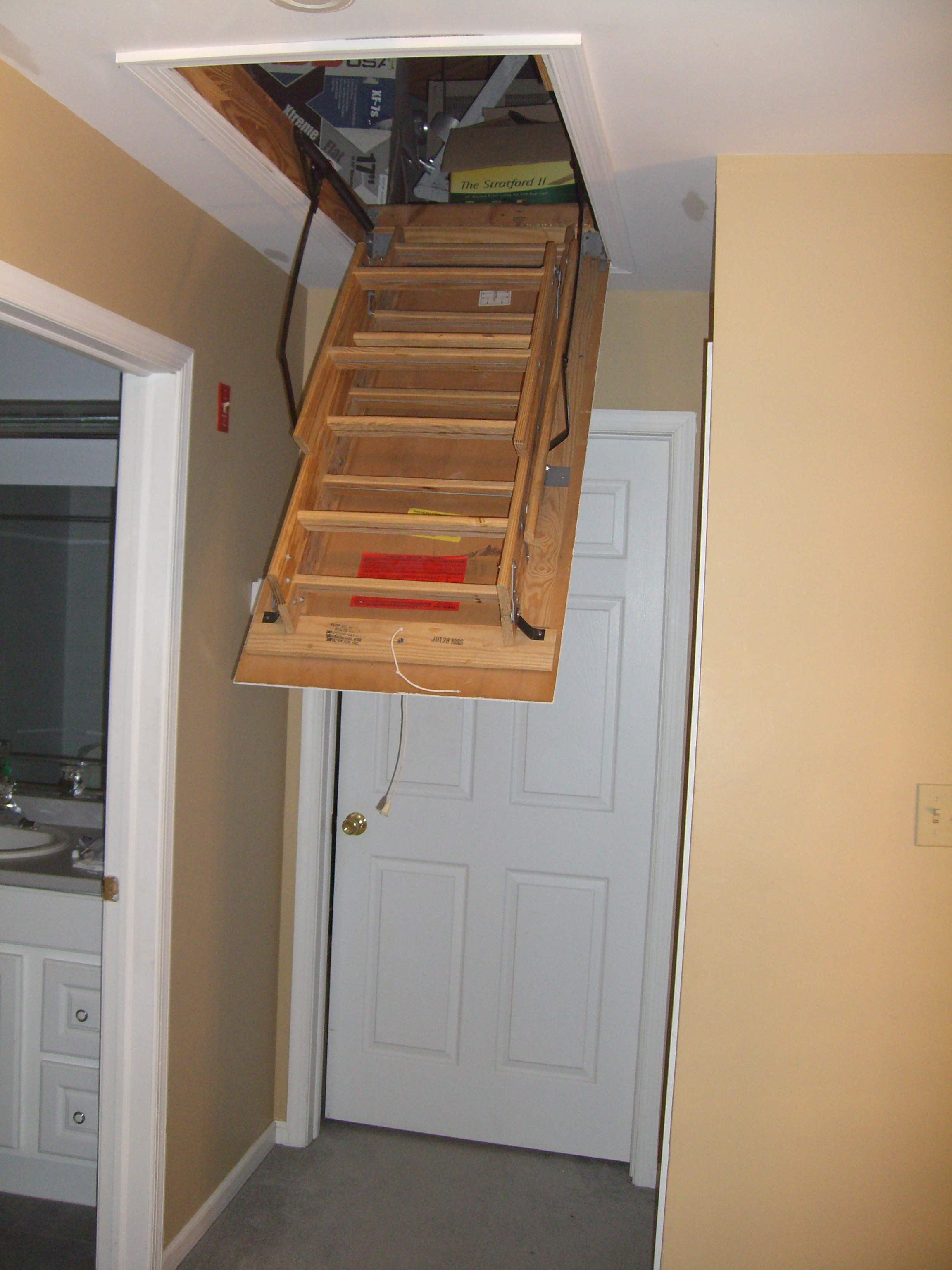 I took this picture.